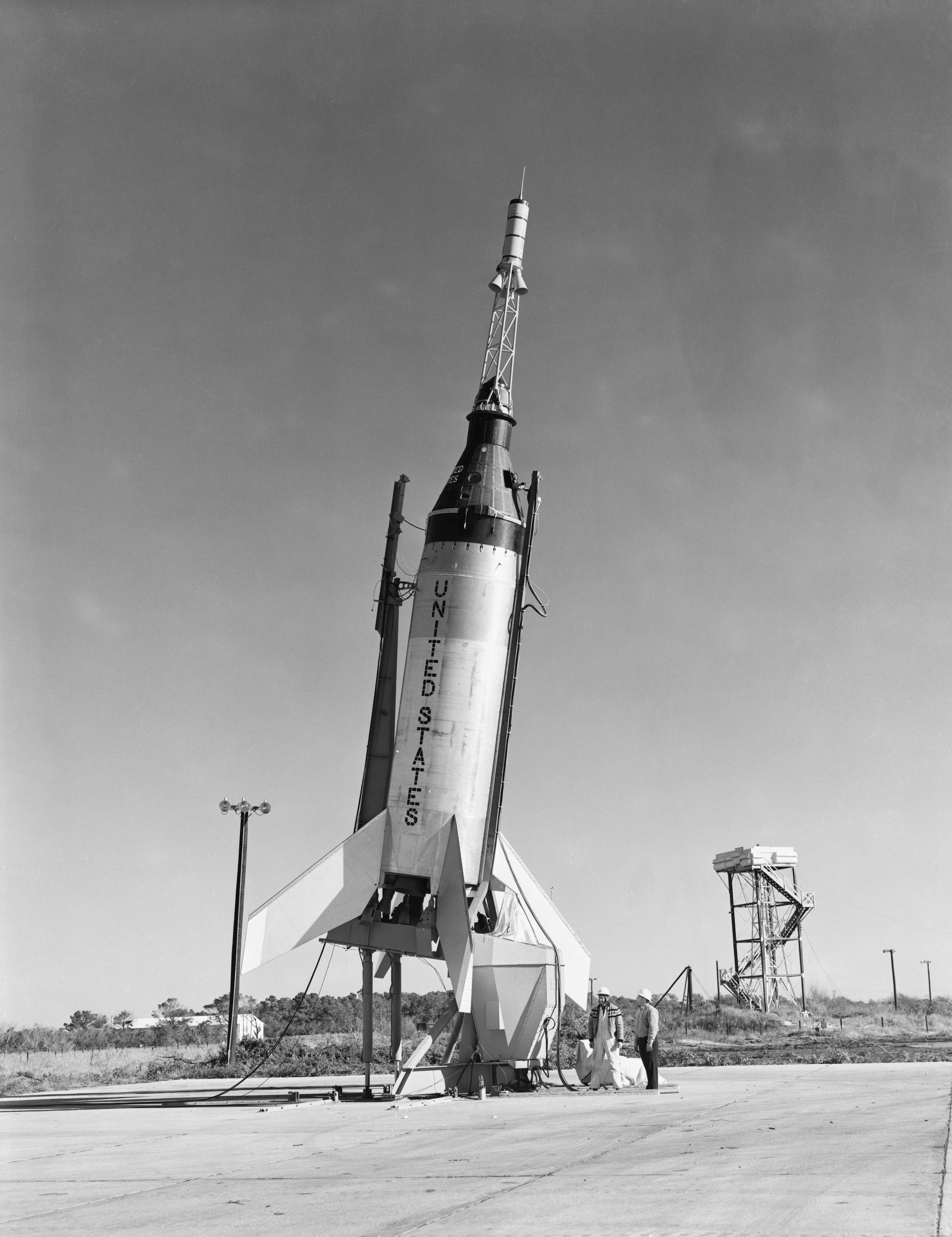 Little Joe-5 prelaunch fittings shot before flight from Wallops Island. The suborbital test flight was to qualify the capsule system. The capsule did not separate from the booster.